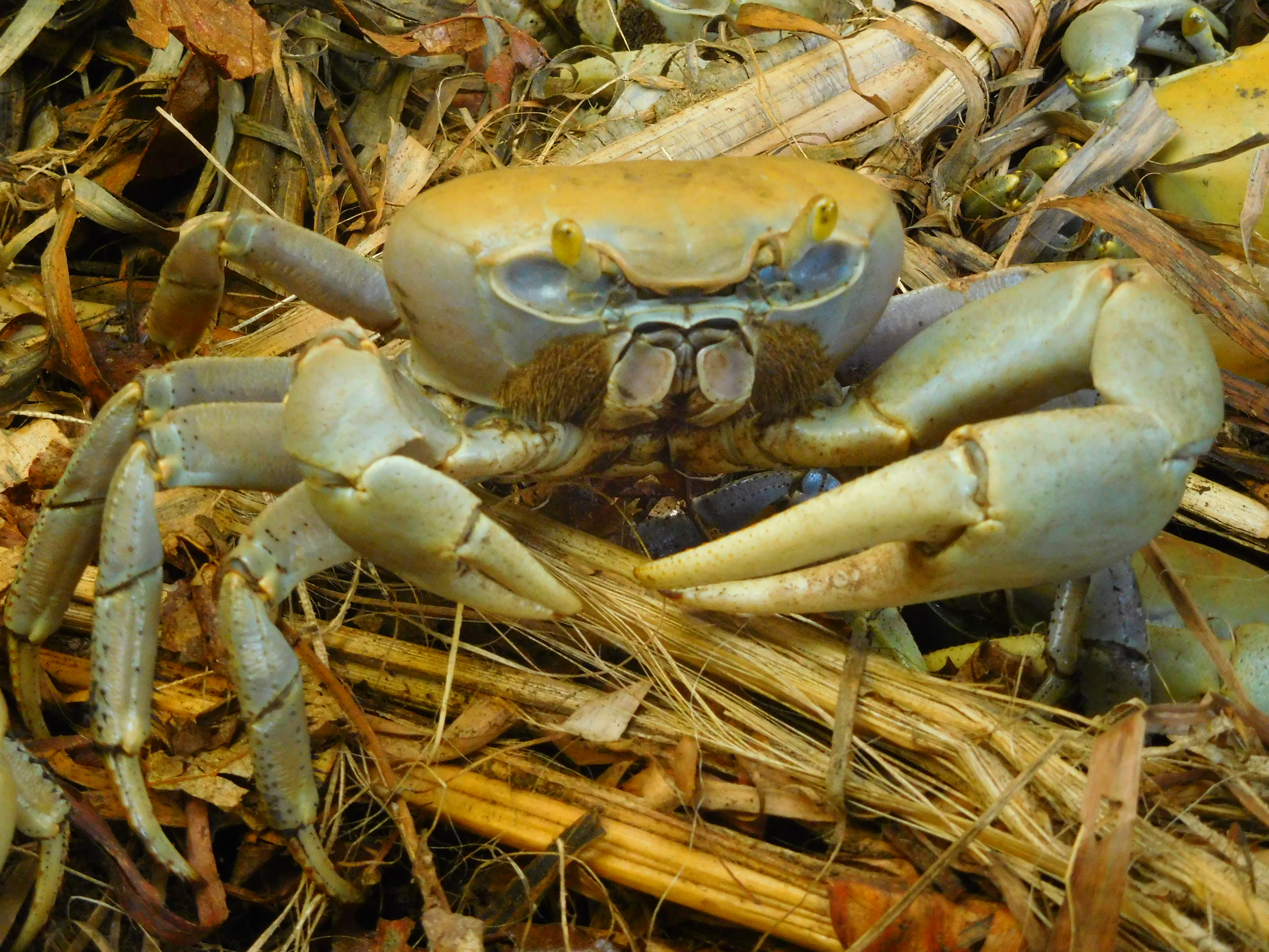 Blue land crab